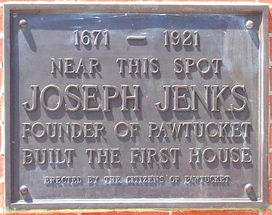 The site of Joseph Jenckes's home is marked by a plaque on the Pawtucket Boys Club Building at 53 East Avenue.